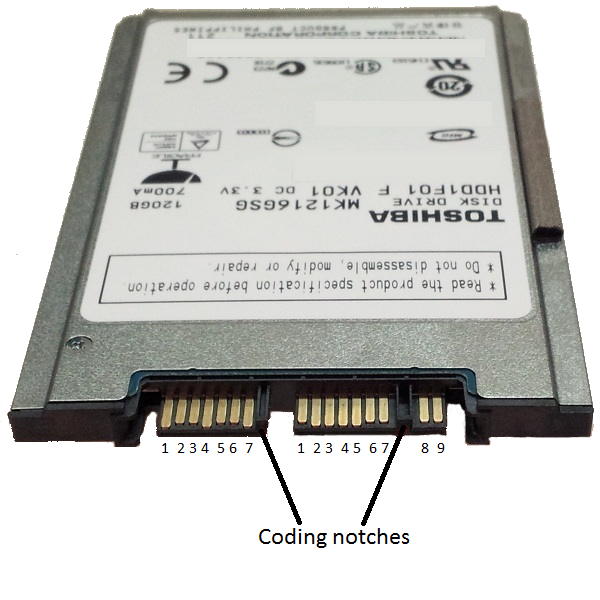 1.8" Toshiba laptop hard drive MK1216GSG with micro SATA interface. The pins have been numbered and the coding notches have been indicated.